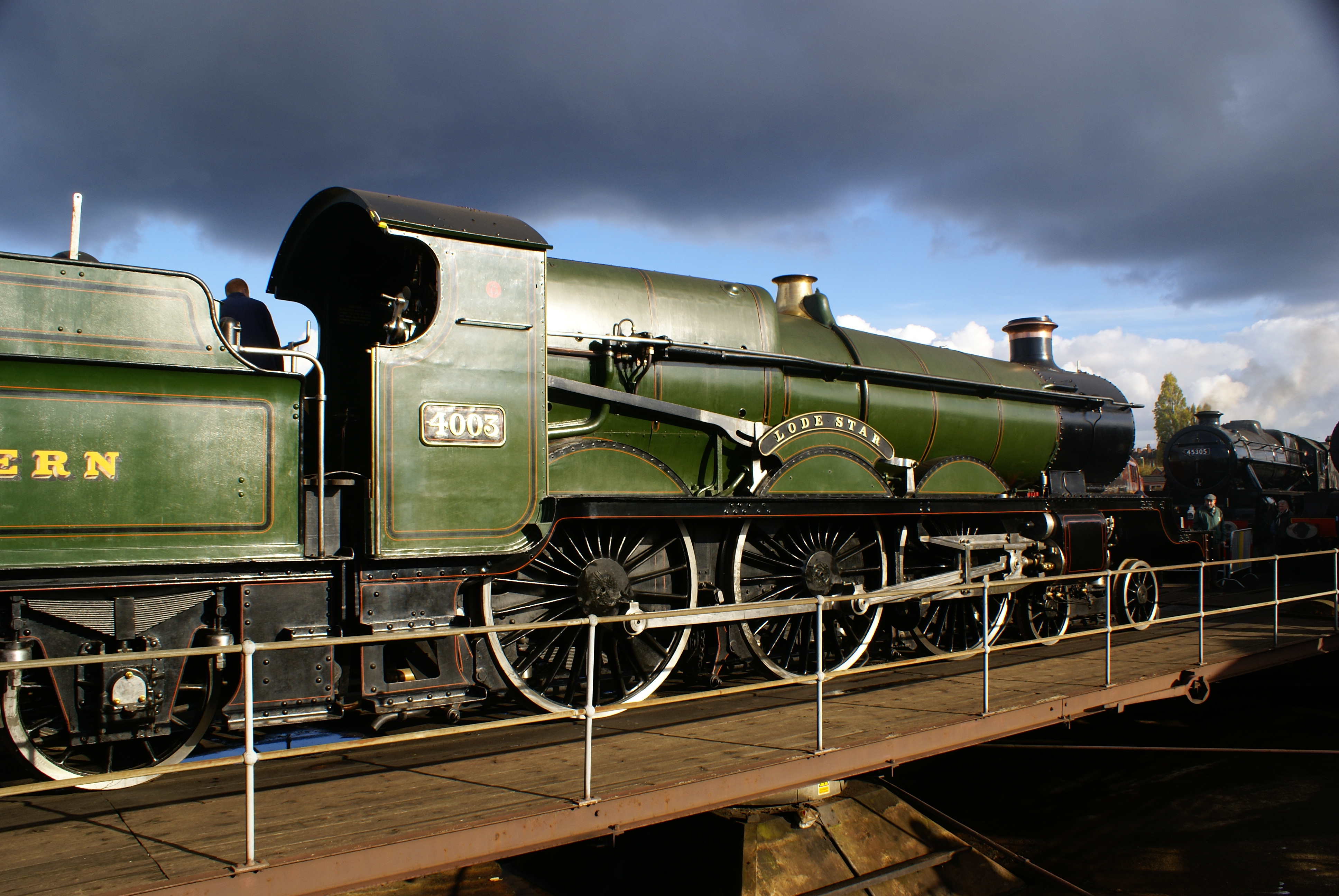 GWR Star Class 4-6-0 Steam Locomotive 'Lode Star' mo.4003 on a Ransomes Rapier Turntable at Tyseley Locomotive Works open day, Birmingham, England 24th October 2010.